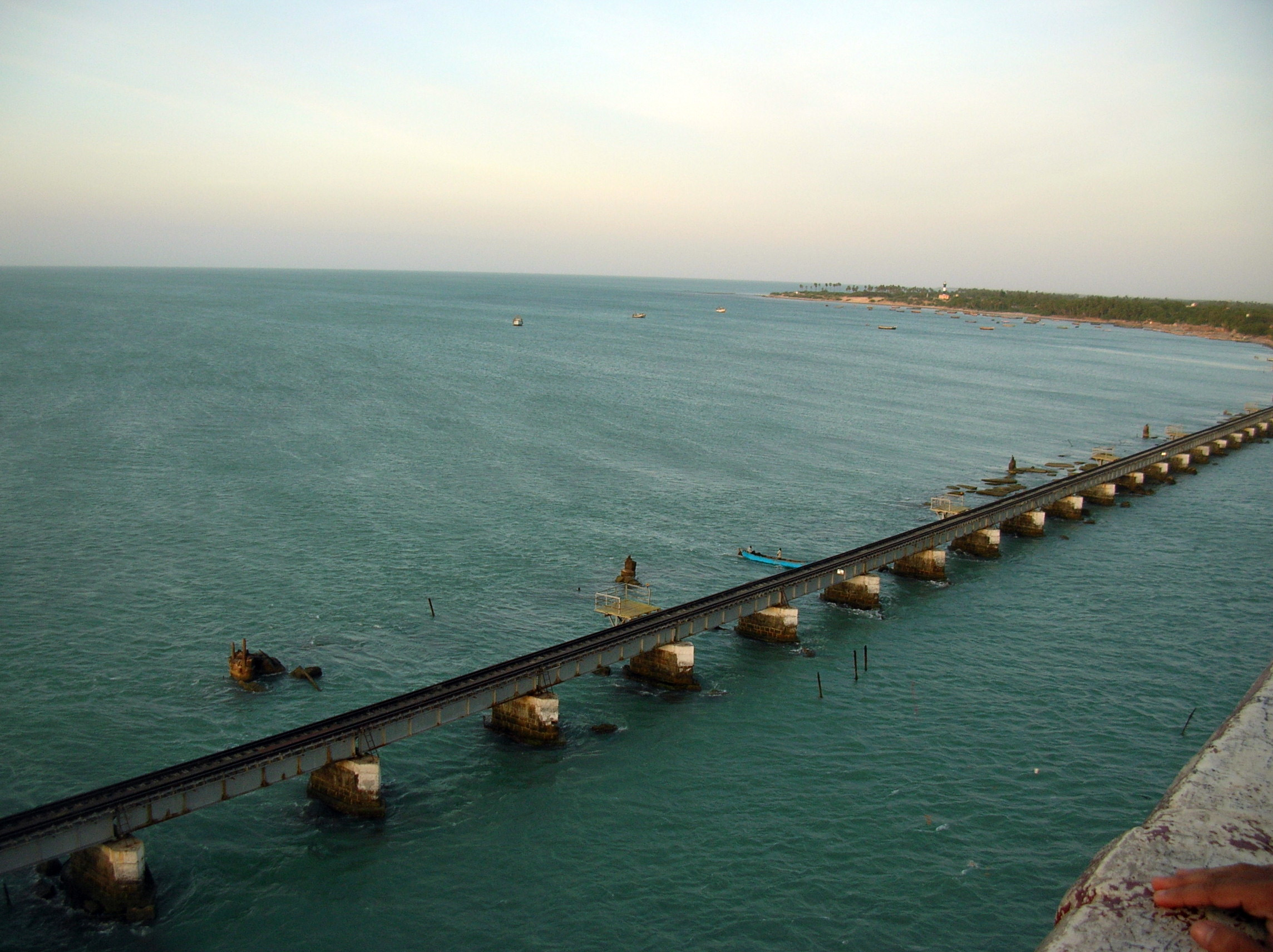 An overview of the Pamban bridge which was built for the railroad linking the Pamban island (which belongs to India) with Mandapam on the Indian mainland. This photo was taken by me with a Nikon Cooplix 4100 camera just before sunset from the road bridge lying nearby.